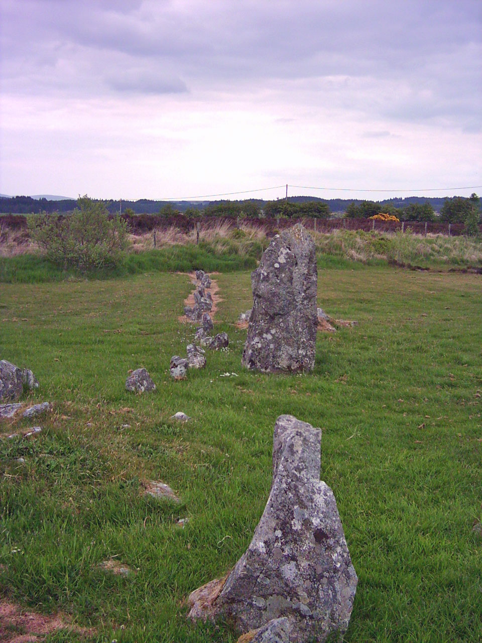 One of the stone rows at Beaghmore. The double line of the row is visible.Co. Tyrone, Beaghmore A Stone Row